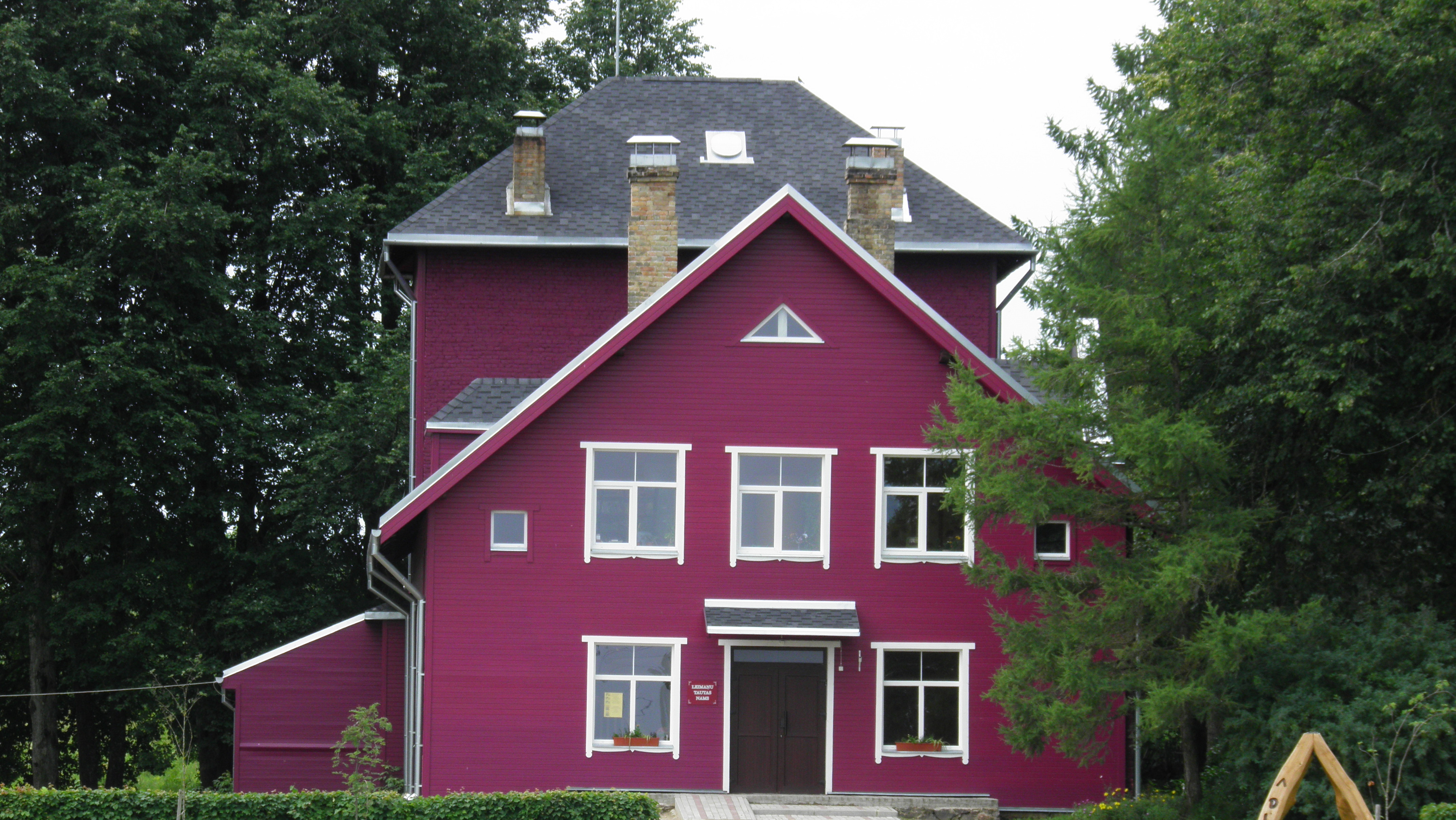 house